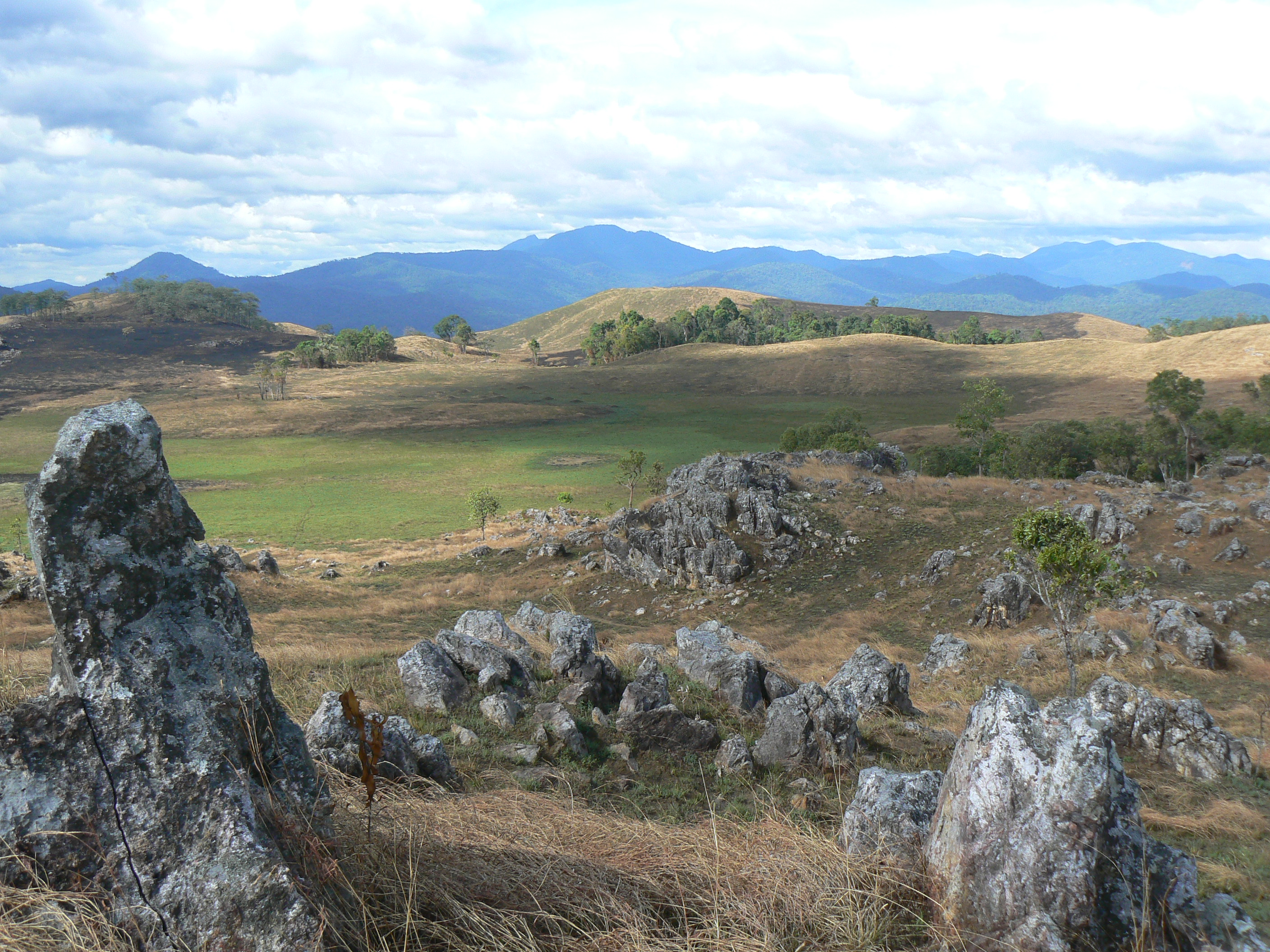 Veal Thom Grasslands in Virachey National Park in Cambodia